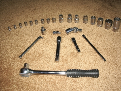 Original photograph of a common socket set